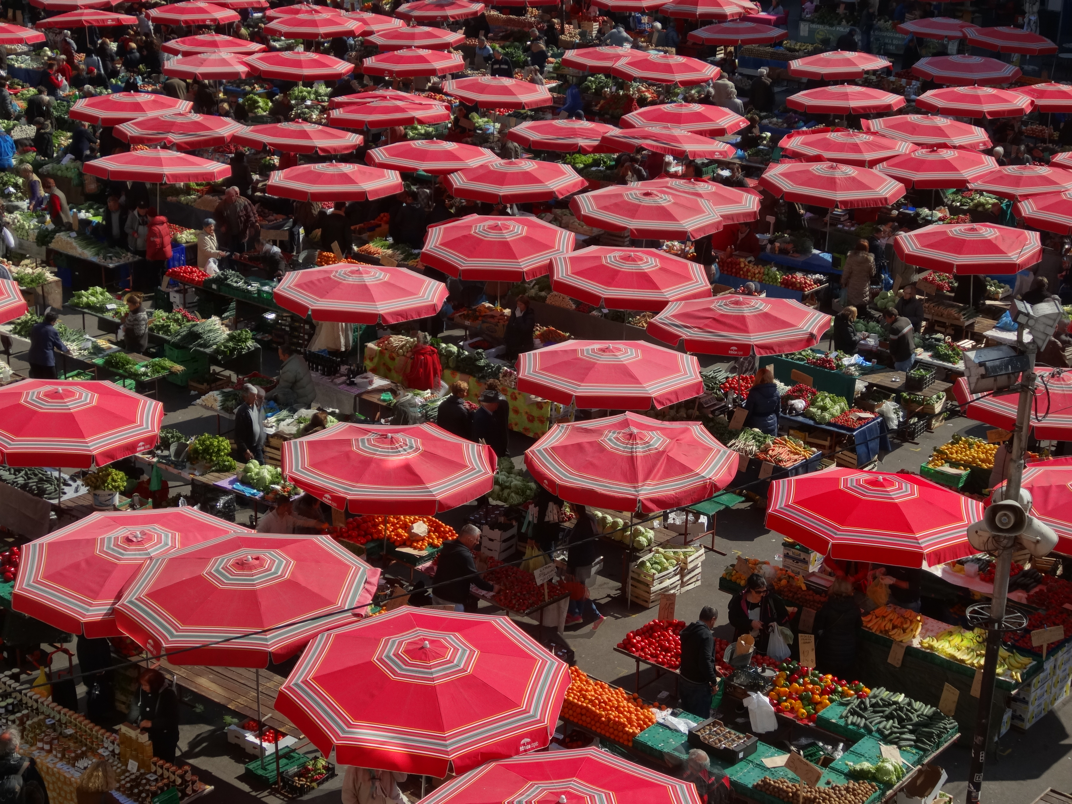 Dolac, central market place in Zagreb